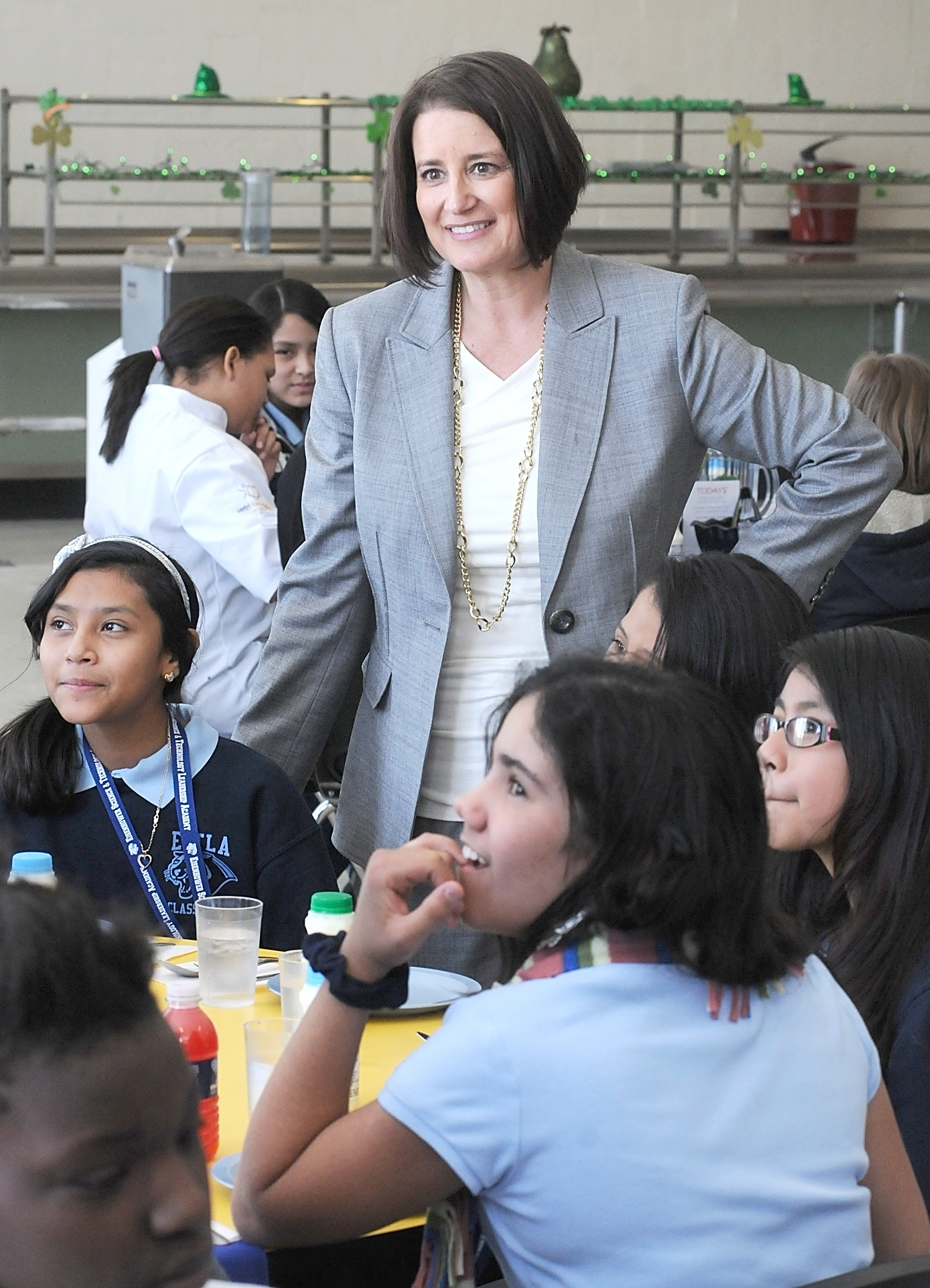 Montgomery County District Attorney Risa Vetri Ferman talks with students at a lunch table at Eisenhower Science and Technology Leadership Academy Thursday March 6, 2014. Students participated in an Eatiquette program during their lunch break at the Norristown school. The program, sponsored by the Vetri Foundation, exposes the students to new foods and emphasizes etiquette. Ferman is a former board member of the Vetri Foundation. Photo by Gene Walsh / Times Herald Staff